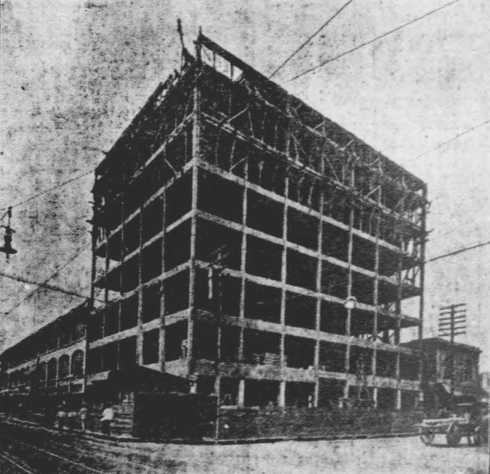 Blount Building, Pensacola, Florida, under construction, 1907-1908